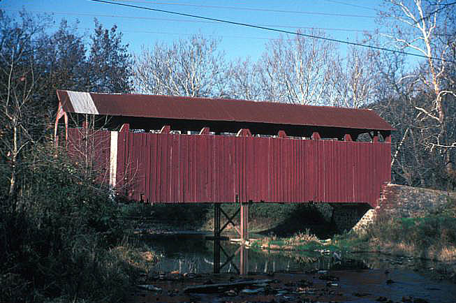 NORTH ORIENTAL/CURRY’S CORNER/BEAVER CB OVER MAHANTANGO CREEK; 69’ MKING; 1908; THIS BRIDGE JOINS JUNIATA AND SNYDER COUNTIES AND IS LISTED IN BOTH PLACES WITH THE SAME REFERENCE NUMBER.